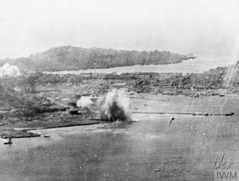 Shells from a British Pacific Fleet falling on oil tanks at Truk atoll during Operation Inmate in June 1945